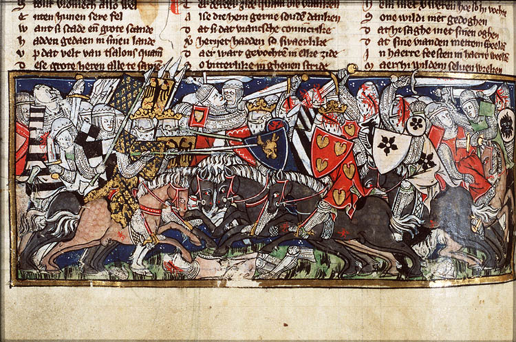 Battle of the Catalaunian plains, between Attila, Aetius, Meroveus and Theodoric I; from Jacob van Maerlant's Spieghel Historiael (KB KA 20, fol. 146v)